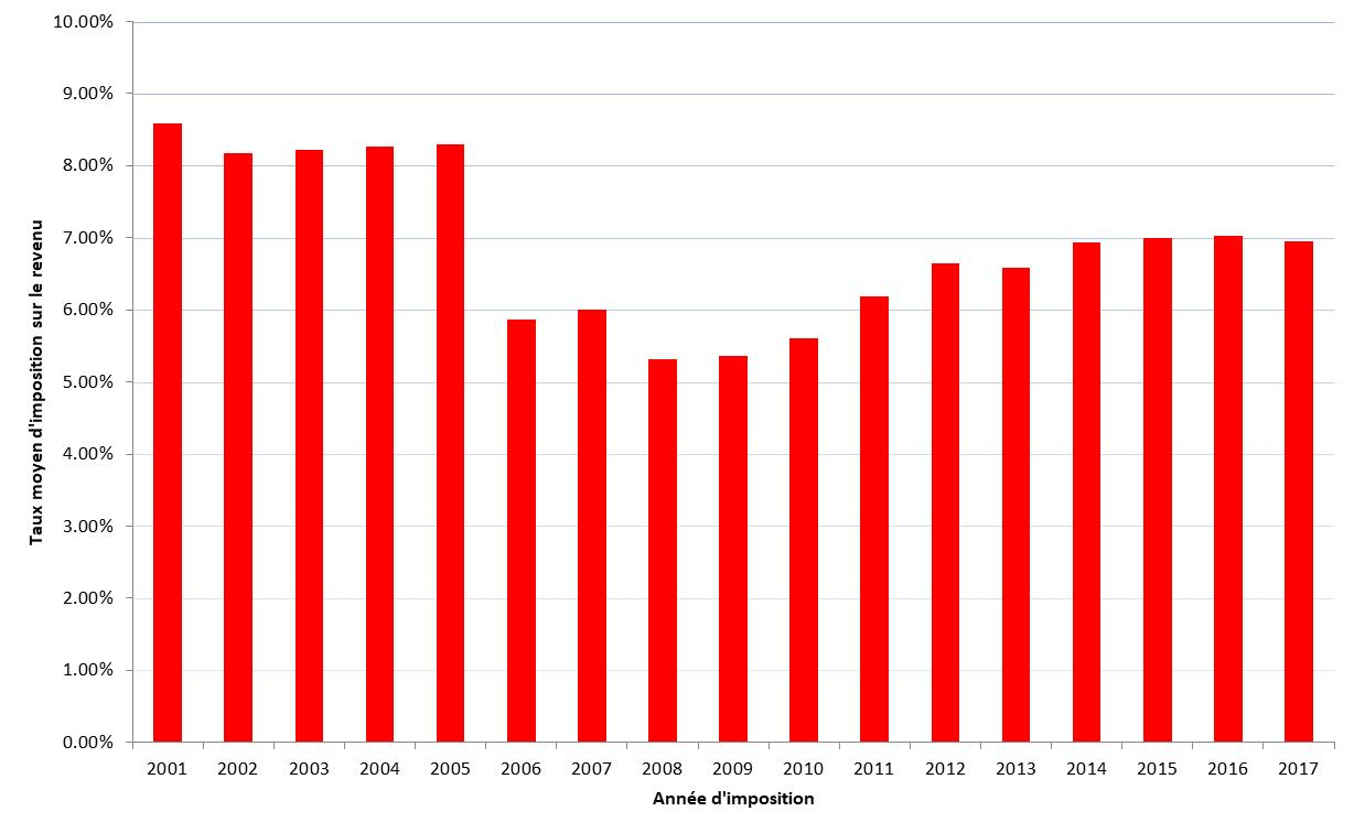 Average rate of French income tax